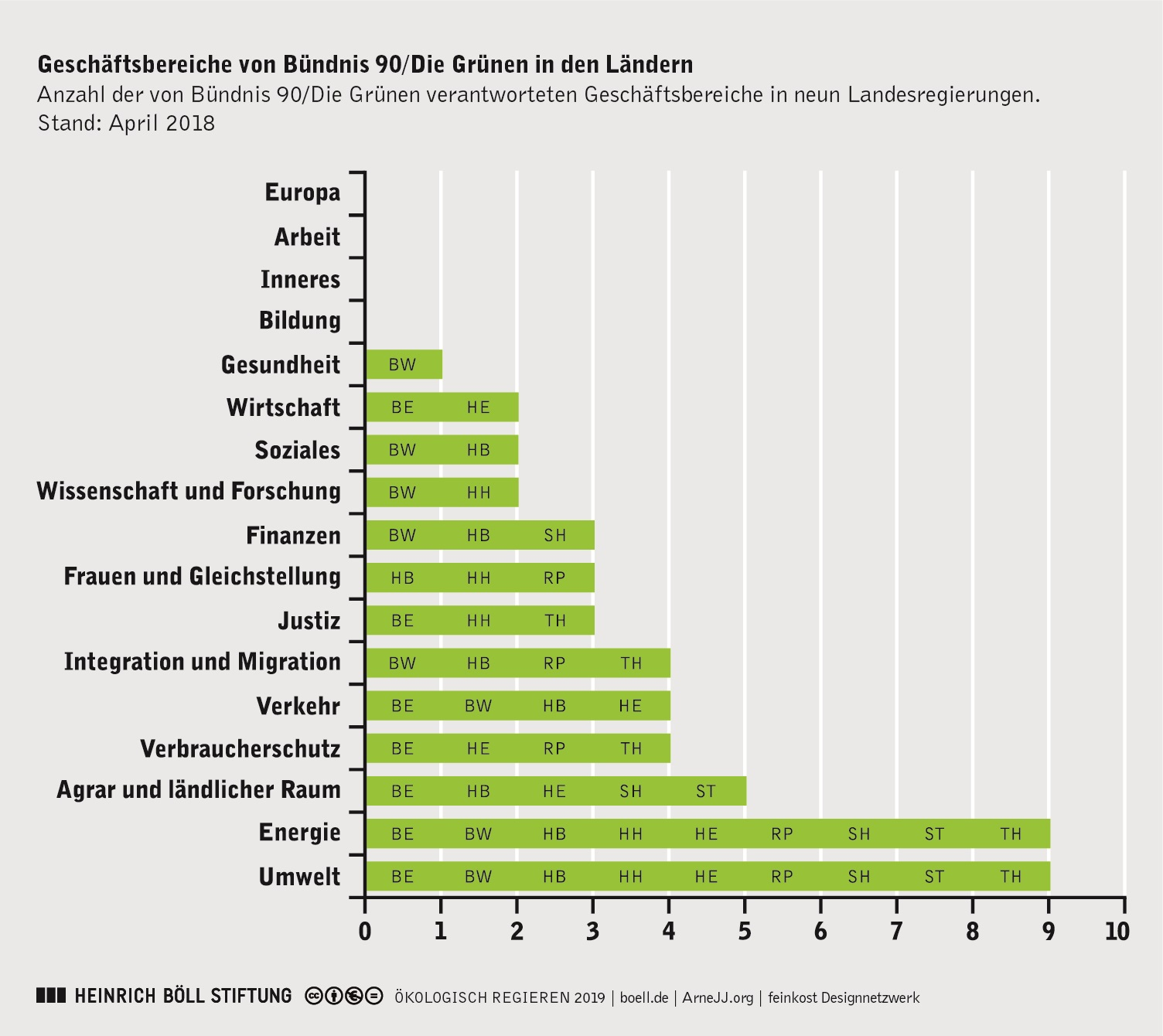 Am meisten vertreten in Grünen Landesministerien sind die Ressorts Umwelt und Energie, gefolgt von Agar und ländlicher Raum, Verbraucherschutz, Verkehr, Integration und Migration.